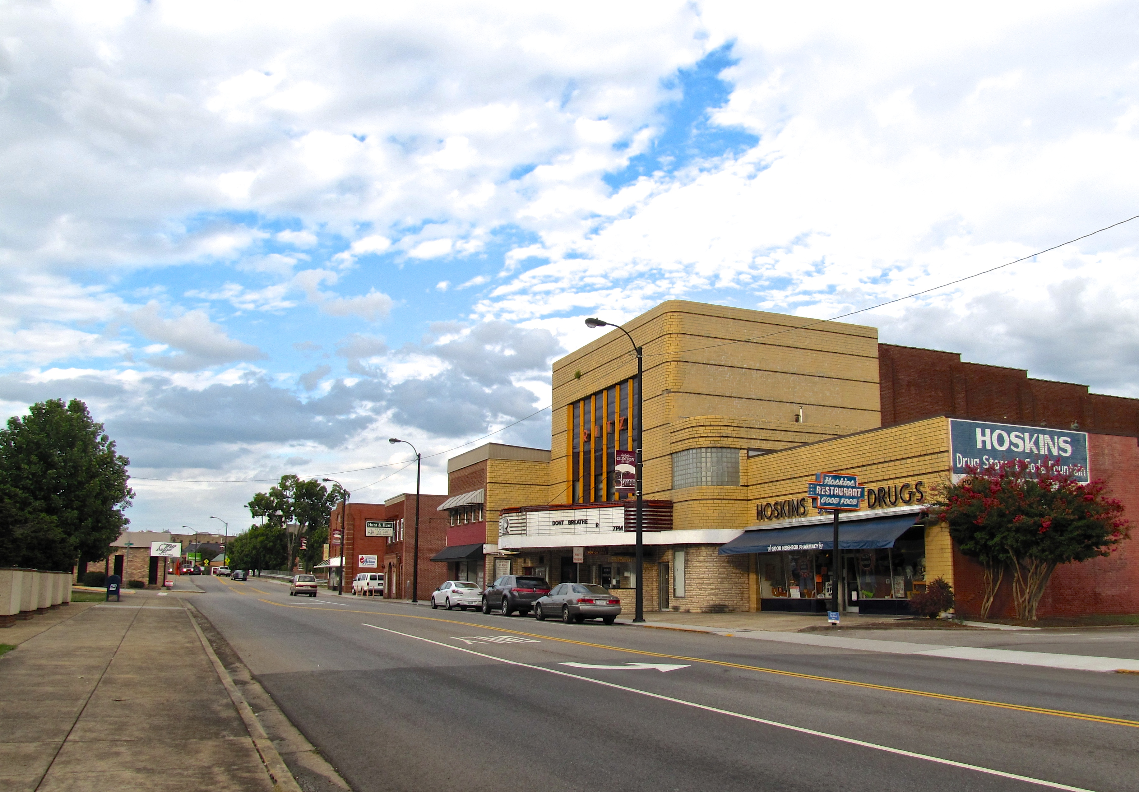 The Ritz Theater and other buildings along Main Street in Clinton, Tennessee, United States.